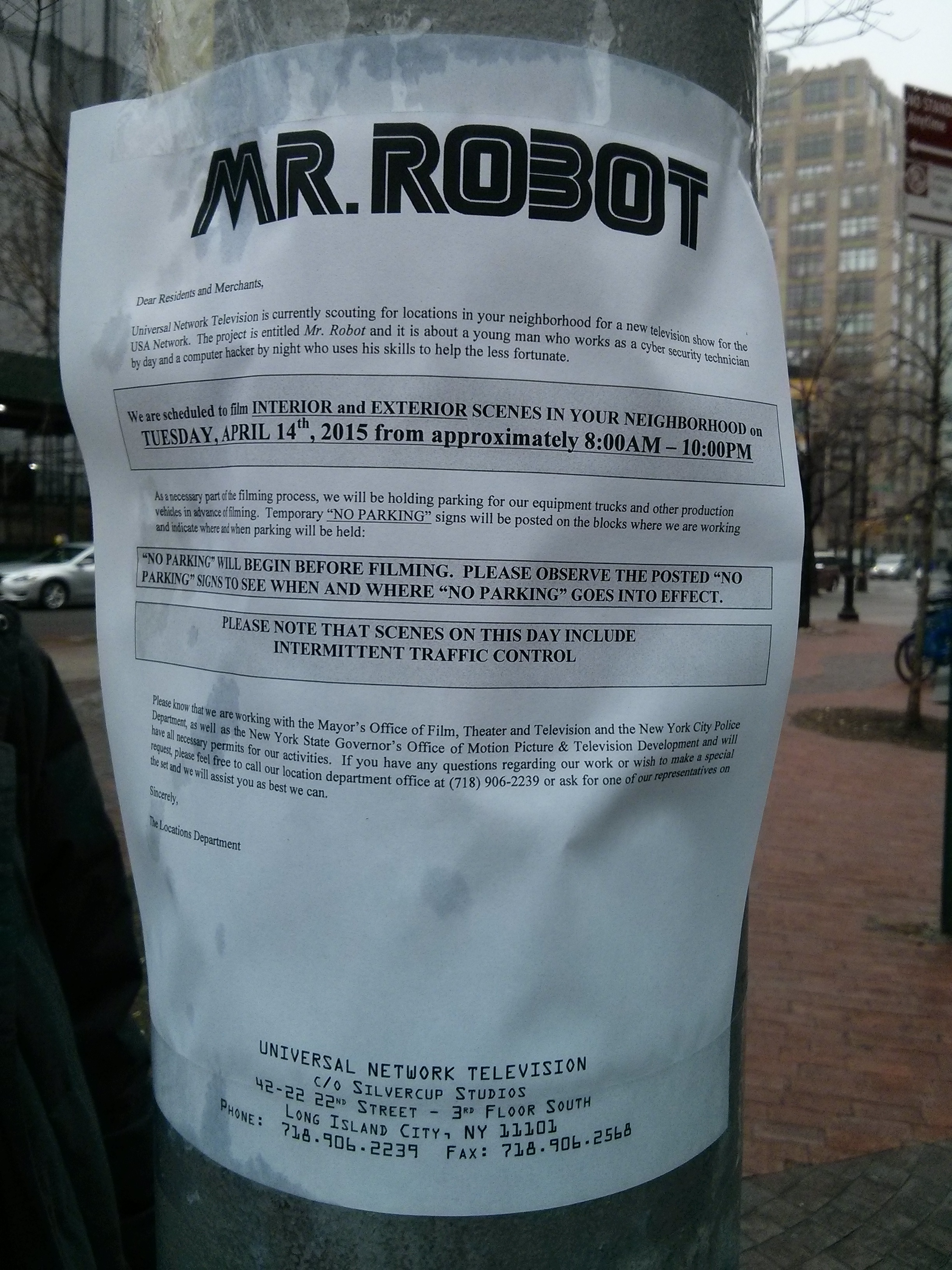 A poster in the neighborhoods of New York, warning residents that the shooting of Mr. Robot started on April 14, 2015.